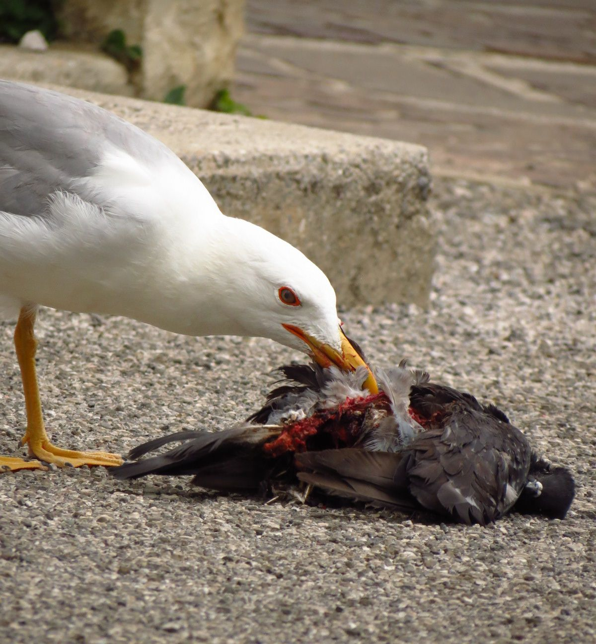 Seagull feeding on a dove in Italy in 2016.